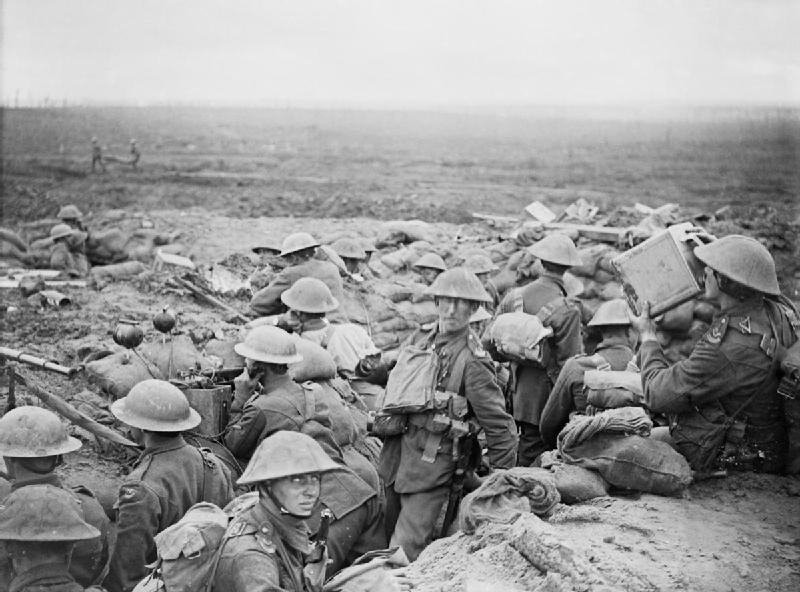 Men of the 13th Battalion, Durham Light Infantry, in trenches just prior to their attack towards Veldhoek during the Battle of Menin Road. (Notice the man drinking water out of a petrol can--many soldiers complained the water always tasted like petrol, chlorine, or both.)